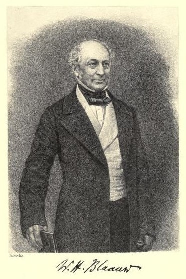 Portrait of William Henry Blaauw (1793–1870), English antiquarian.